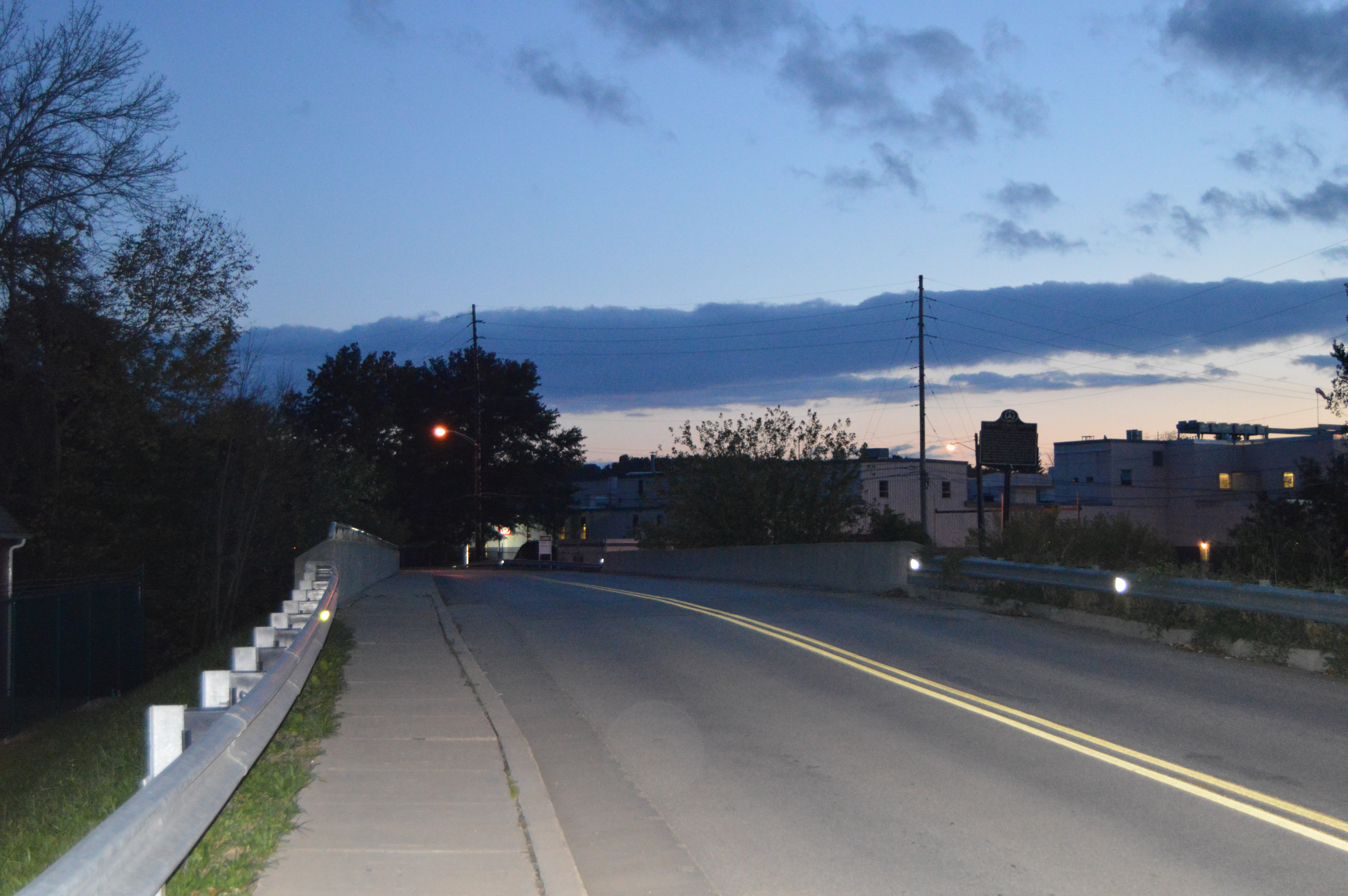 Overview of the bridge that carries Grant Street over French Creek in Cambridge Springs, Pennsylvania, United States. It replaced the Cambridge Springs Bridge, which was built in 1896 and listed on the National Register of Historic Places in 1988; although destroyed, it has not yet been removed from the Register.